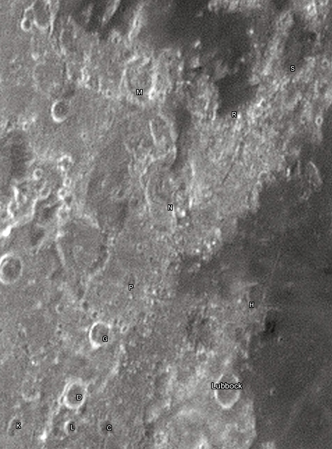 Lubbock lunar crater as seen from Earth with satellite craters labeled